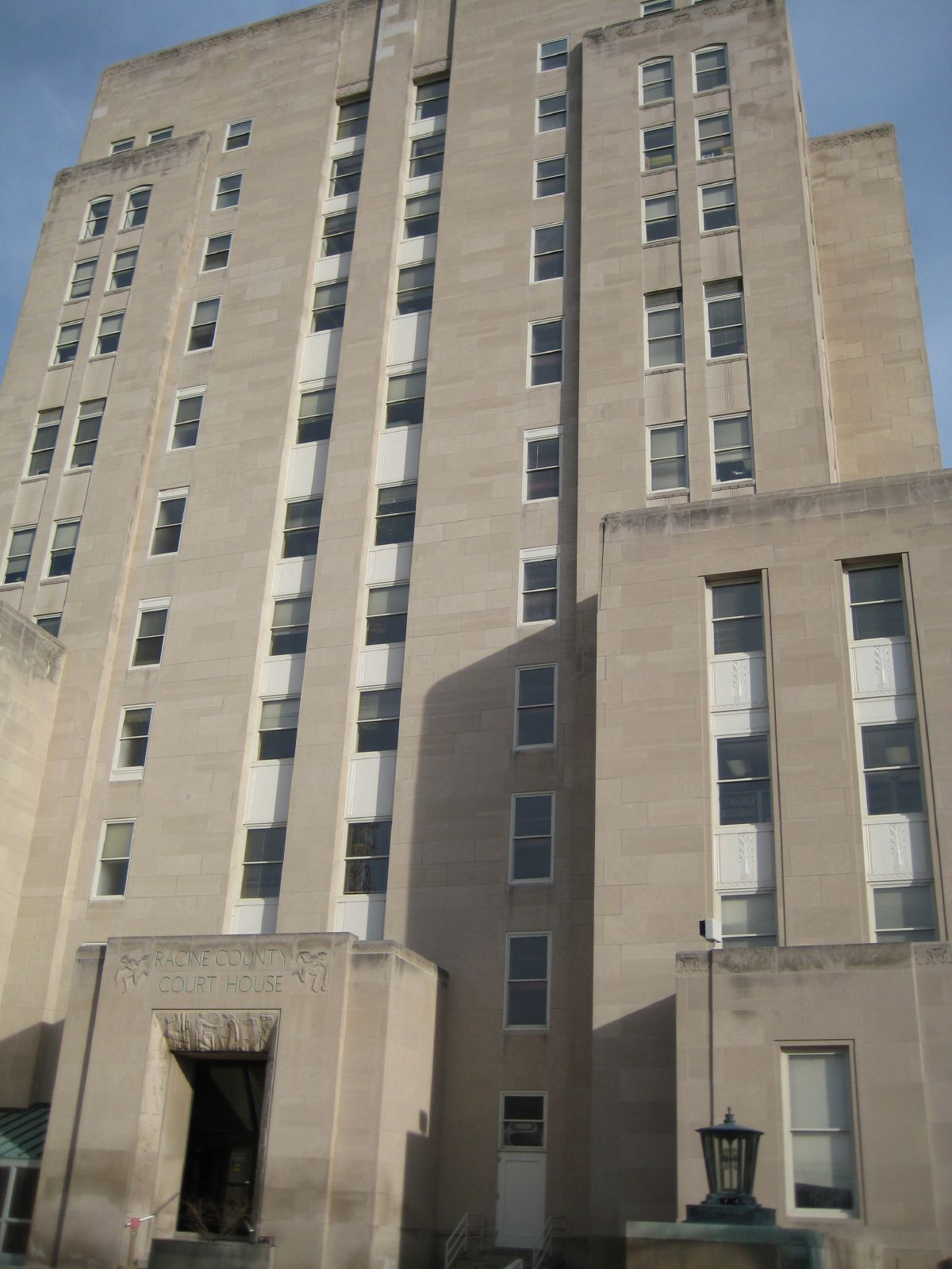 The courthouse for Racine County, Wisconsin in the city of Racine, listed on the National Register of Historic Places.